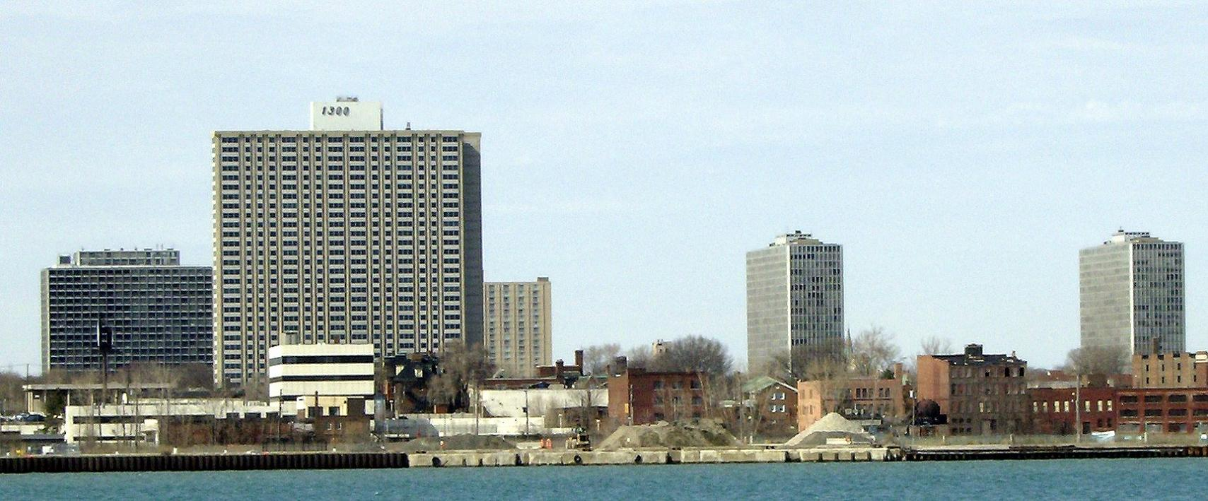 The Modernist Lafayette Park apartment complex in Detroit, Michigan. As the "Mies van der Rohe Residential District, Lafayette Park", it is on the National Register of Historic Places.